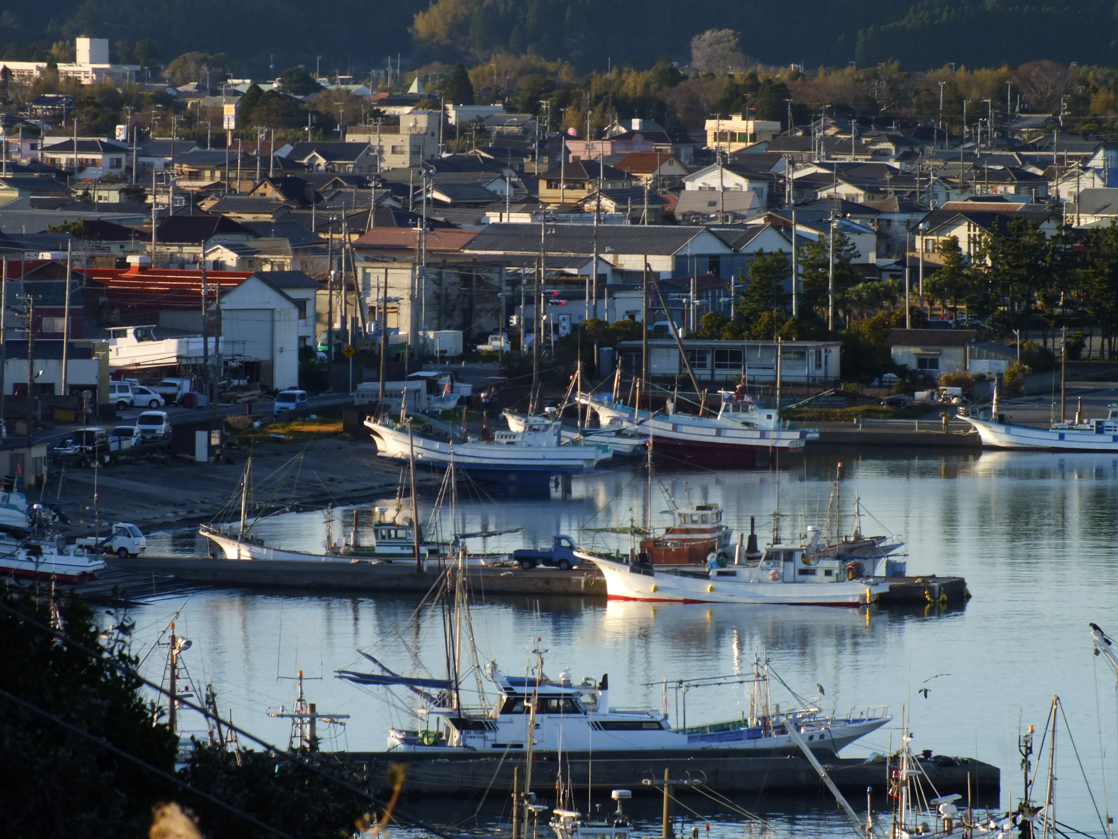 Ohara Fishing Port in Isumi City, Chiba Prefecture, Japan, as seen from Kohama Hachiman Shrine